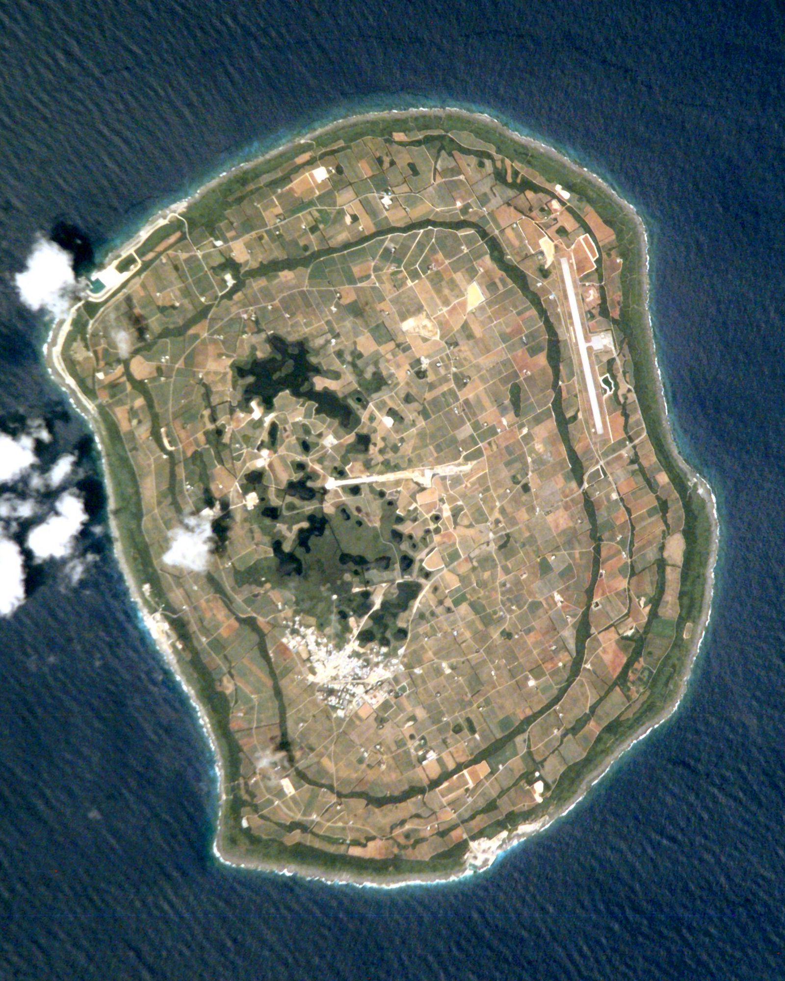 NASA astronaut image of Minami Daitō-jima (Southern Borodino Island), Japan